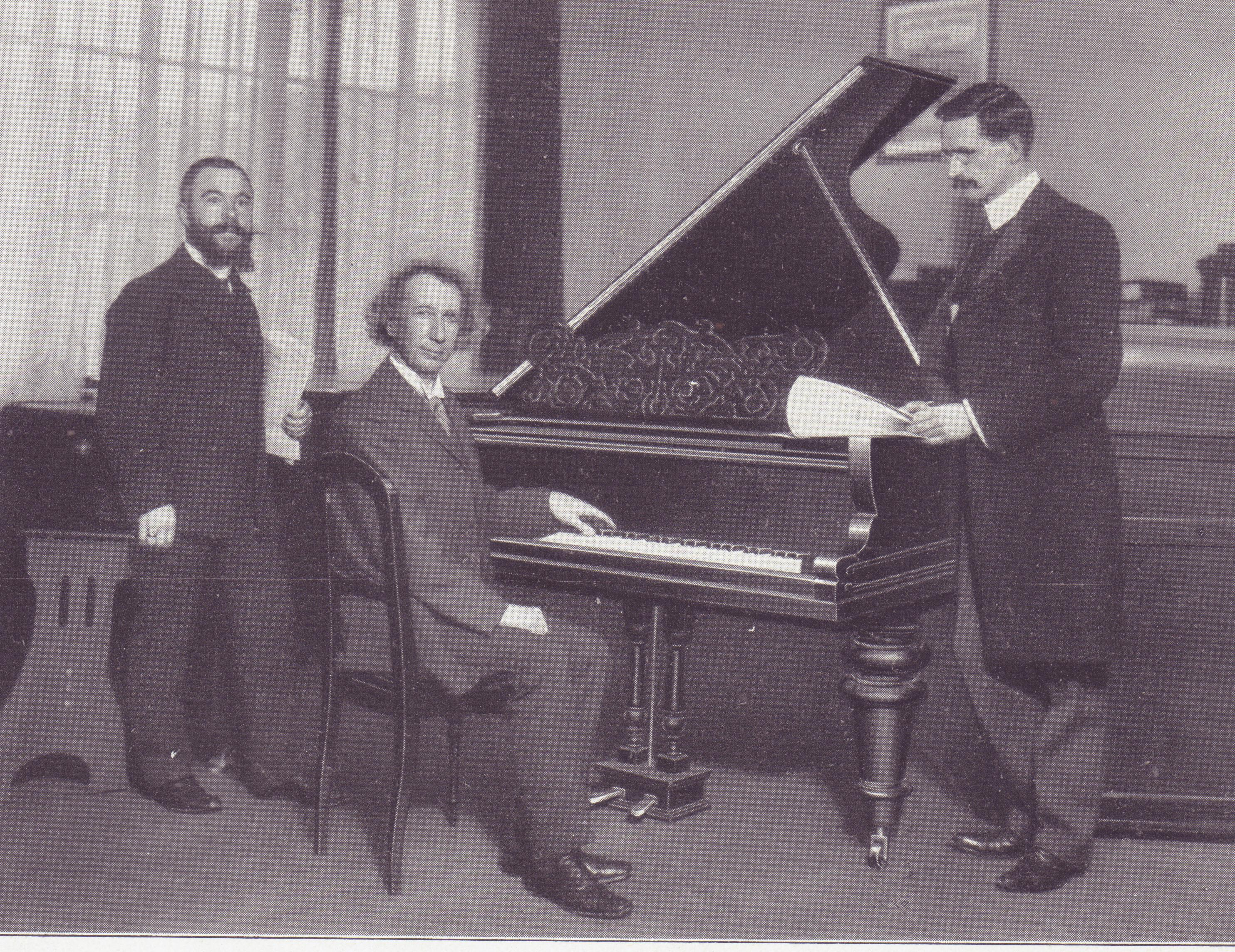 Emil Sauer at the Fa. Ludwig Hupfeld in Leipzig, where he has played for the reproducing piano DEA.